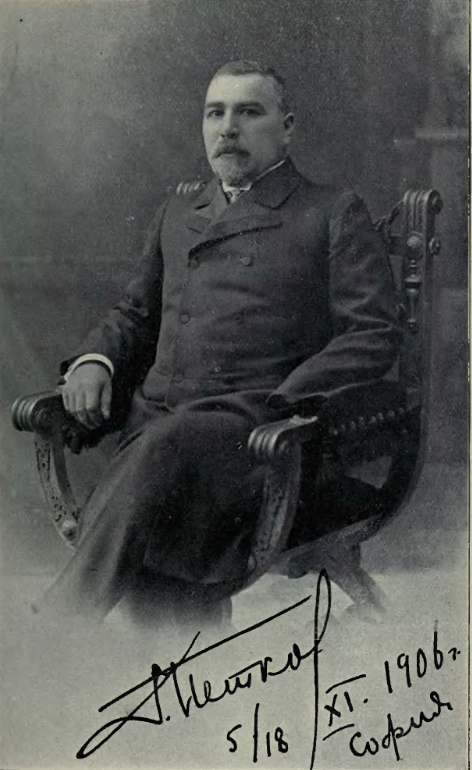 Portrait of Bulgarian Prime Minister Dimitar Petkov in 1906.